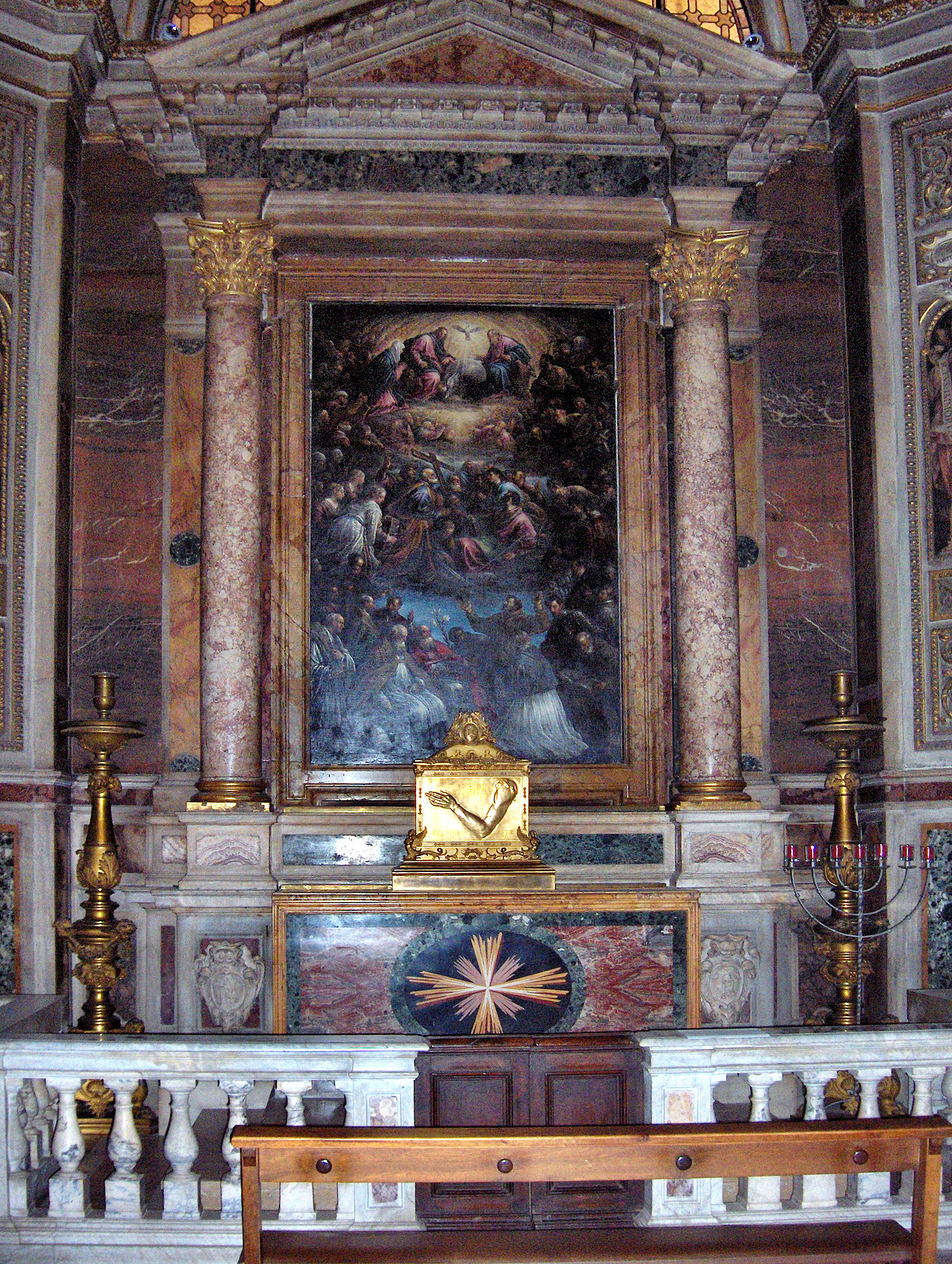 Chapel of the Holy Trinity : altarpiece "The Most Holy Trinity" by Francesco Bassano the Younger;in the church Il Gesù, Rome. The altar holds the relics taken from an arm of St. Andrew Bobola, a Polish Jesuit martyr